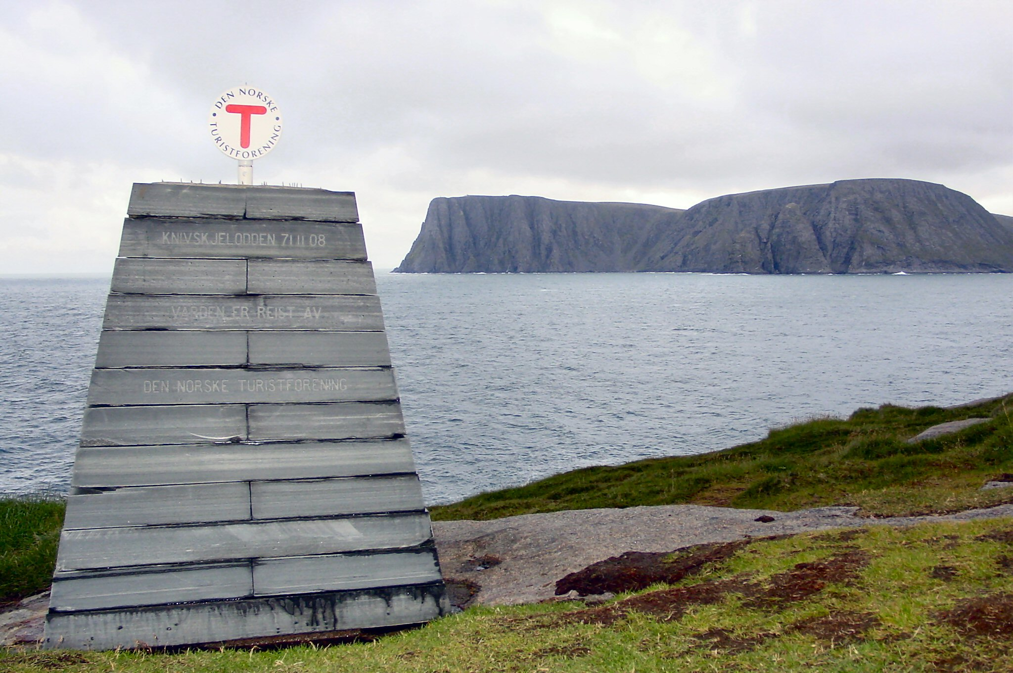 The cairn erected by the National Trekking Association of Norway at the northernmost point of mainland Norway (including coastal islands) at Knivskjellodden.